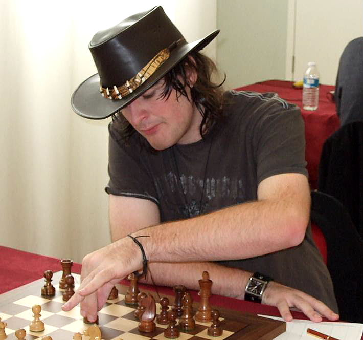 GM Gawain Jones - Round 6 of 4th EU Individual Open Ch., Liverpool World Museum, William Brown Street